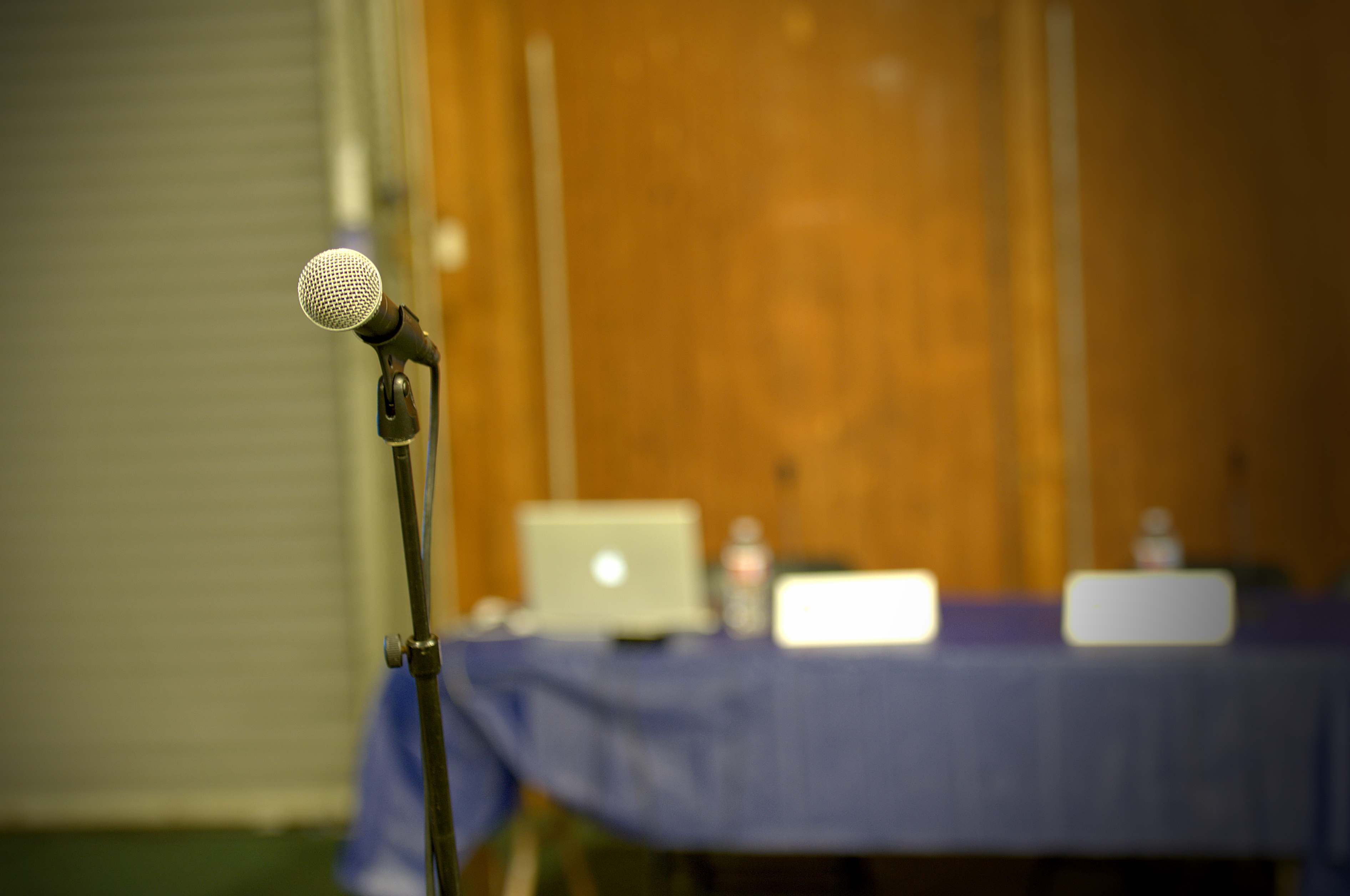 Alternative Press Expo 2010, organized at the Concourse Exhibition Center in San Francisco, California, by Comic-Con International on Oct. 16-17, 2010.